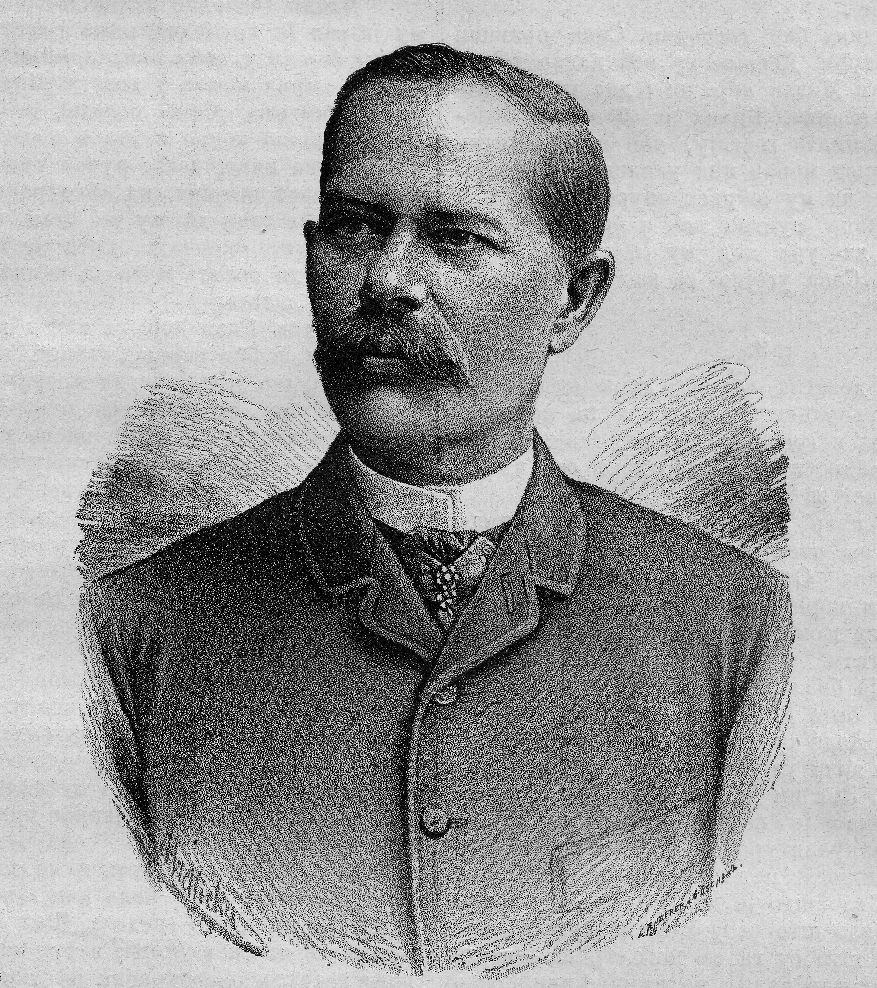 Aleksandar Stojačković (1822-1893), a Serbian historian.Taken from the 1894 edition of the calendar Orao. Srpski (latinica): Aleksandar Stojačković (1822-1893), srpski istoričar. Preuzeto iz izdanja kalendara Orao za 1894. godinu.